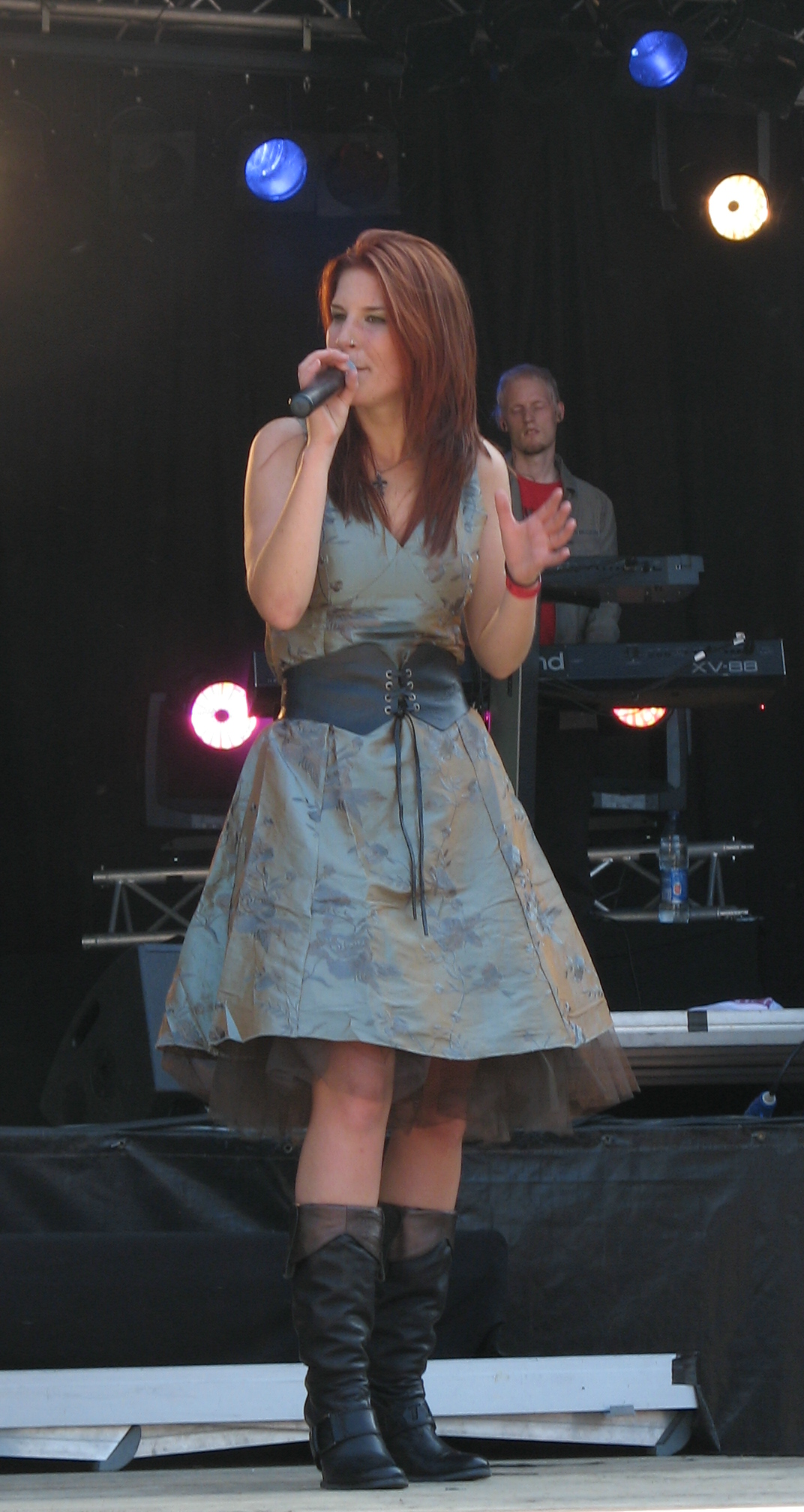 Charlotte Wessels of Delain on Westerpop 2007.